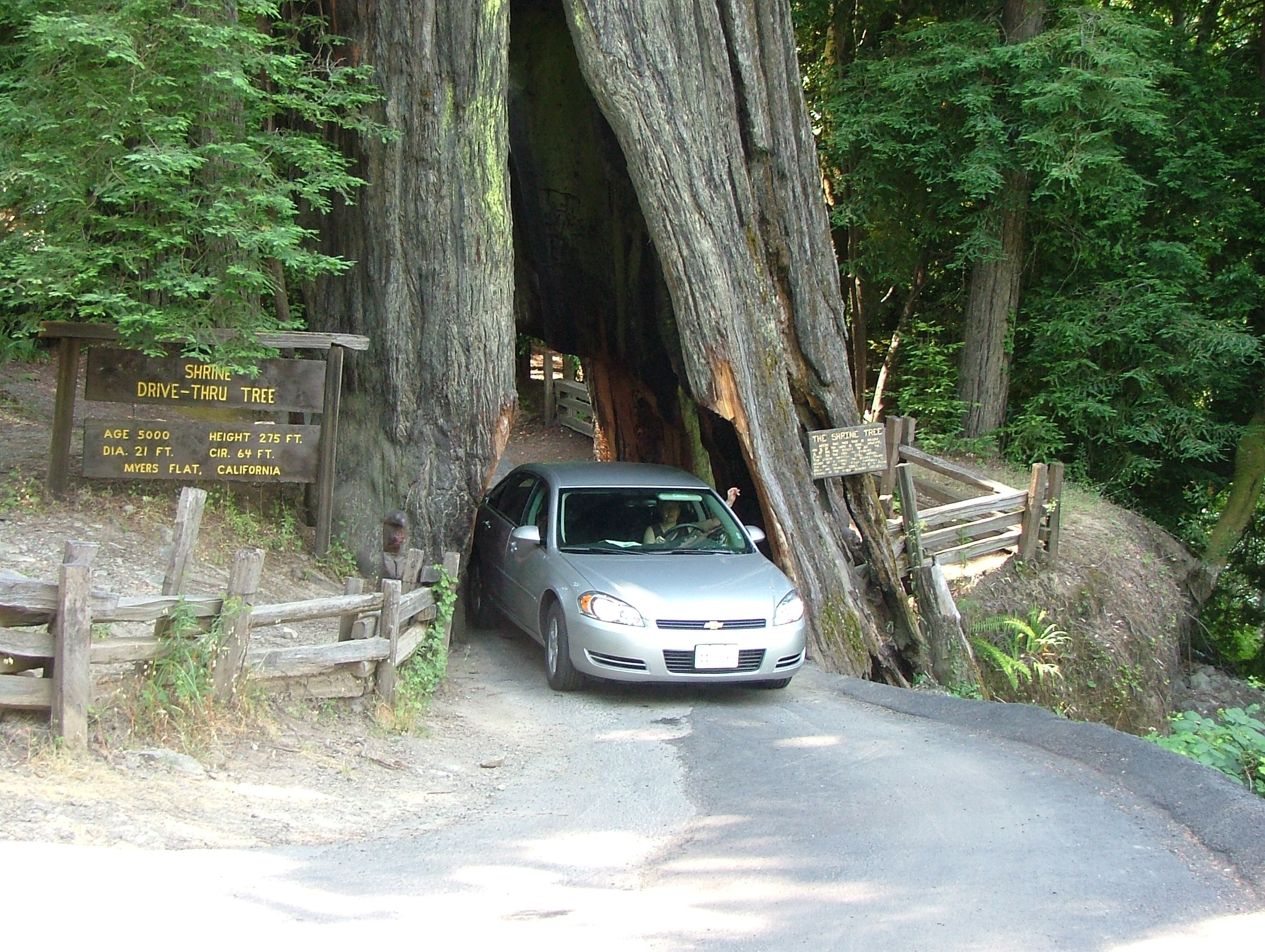 The Shrine Drive Through Tree on the Avenue of the Giants, near Myers Flat, Humboldt County, California. A Coast Redwood tree, Sequoia sempervirens.